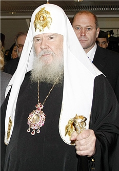 MOSCOW'S MANEZH CENTRAL EXHIBITION HALL. At an opening of the VII Church and Public Exhibition-Forum "Orthodox Russia".